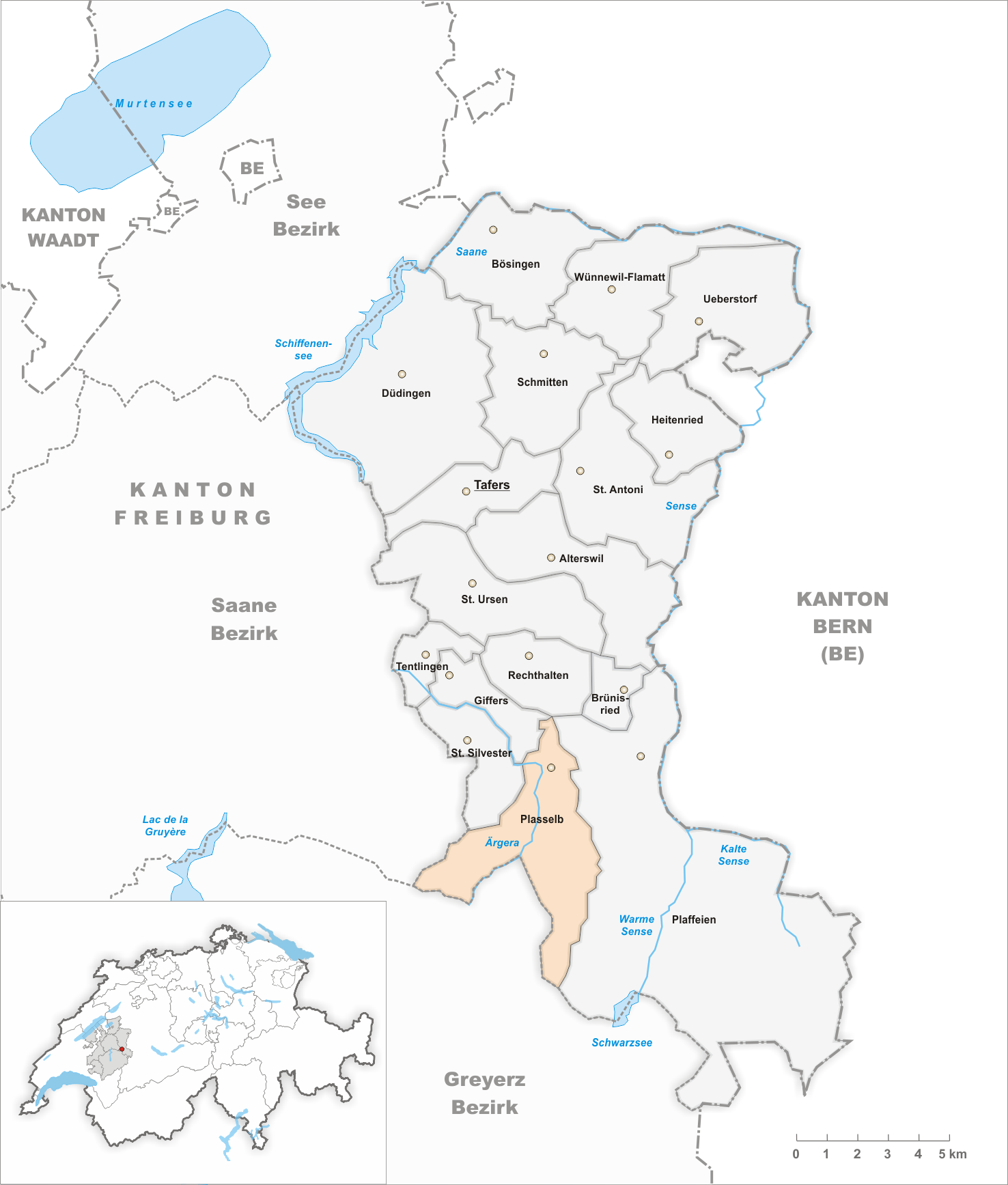 Municipality Plasselb